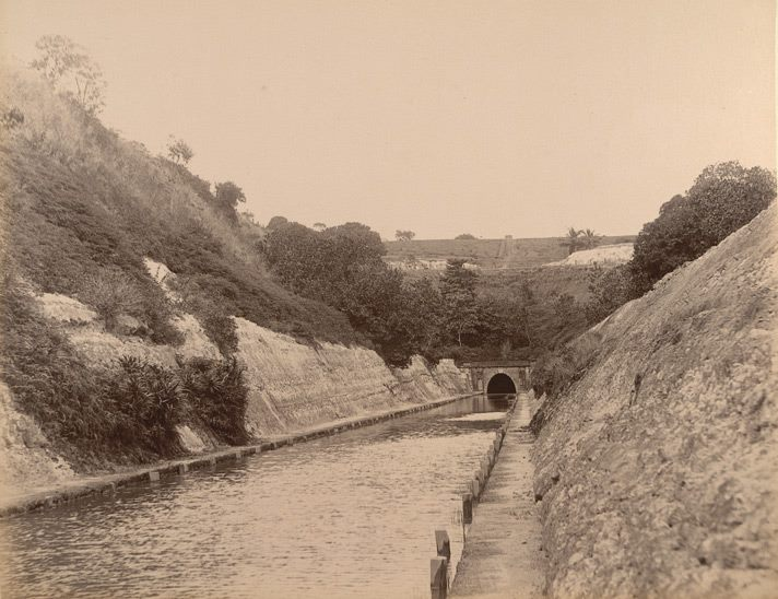 Varkala tunnel